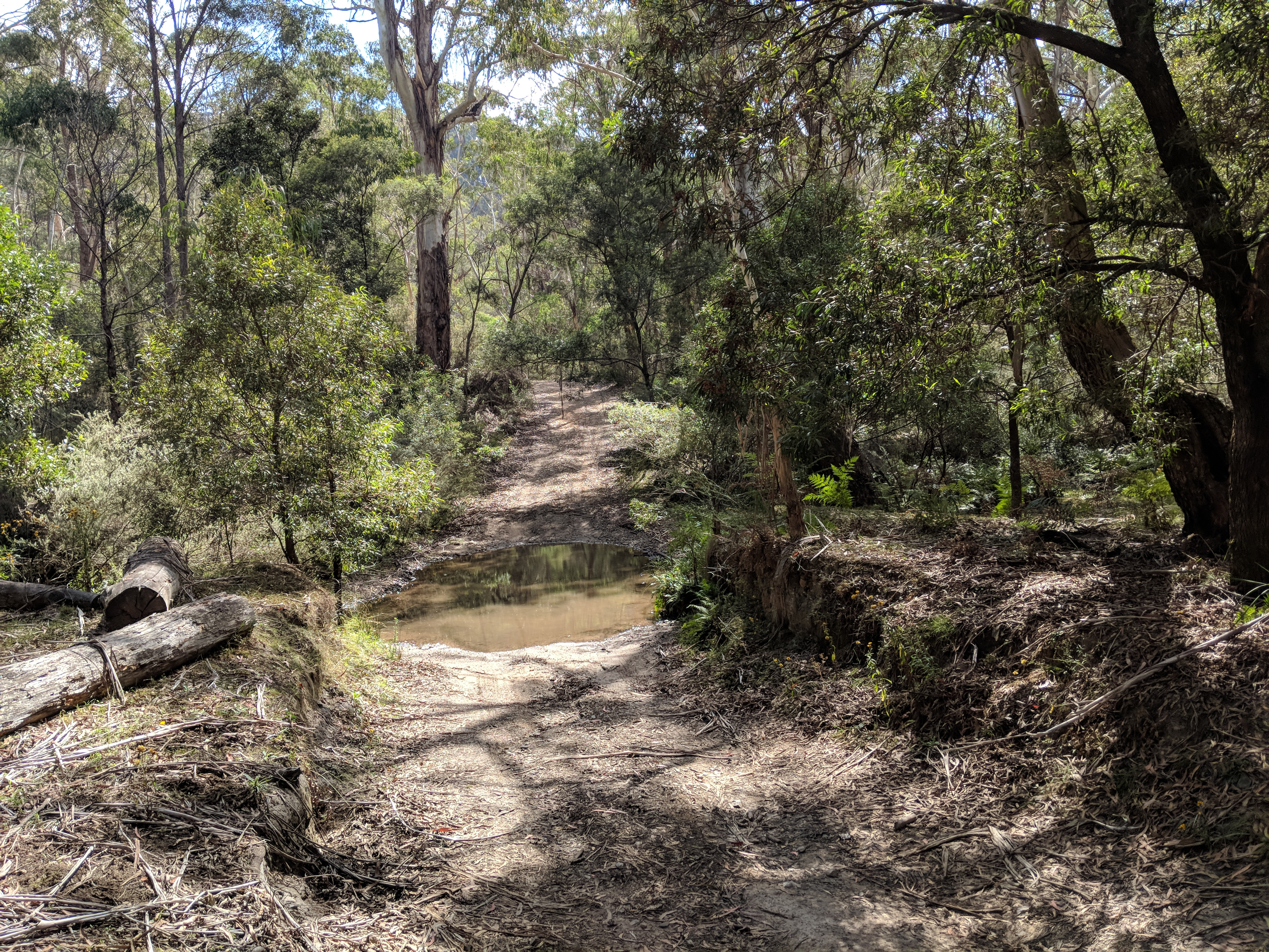 Mulloon fire trail in Tallaganda National Park, Palerang, New South Wales